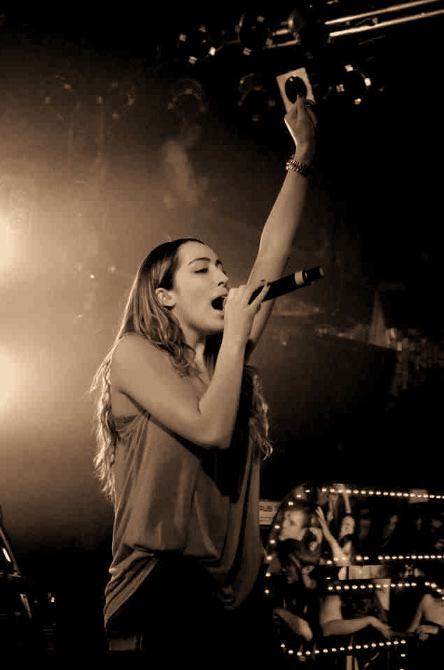 Delilah performing with chase and status at the lucurna music bar